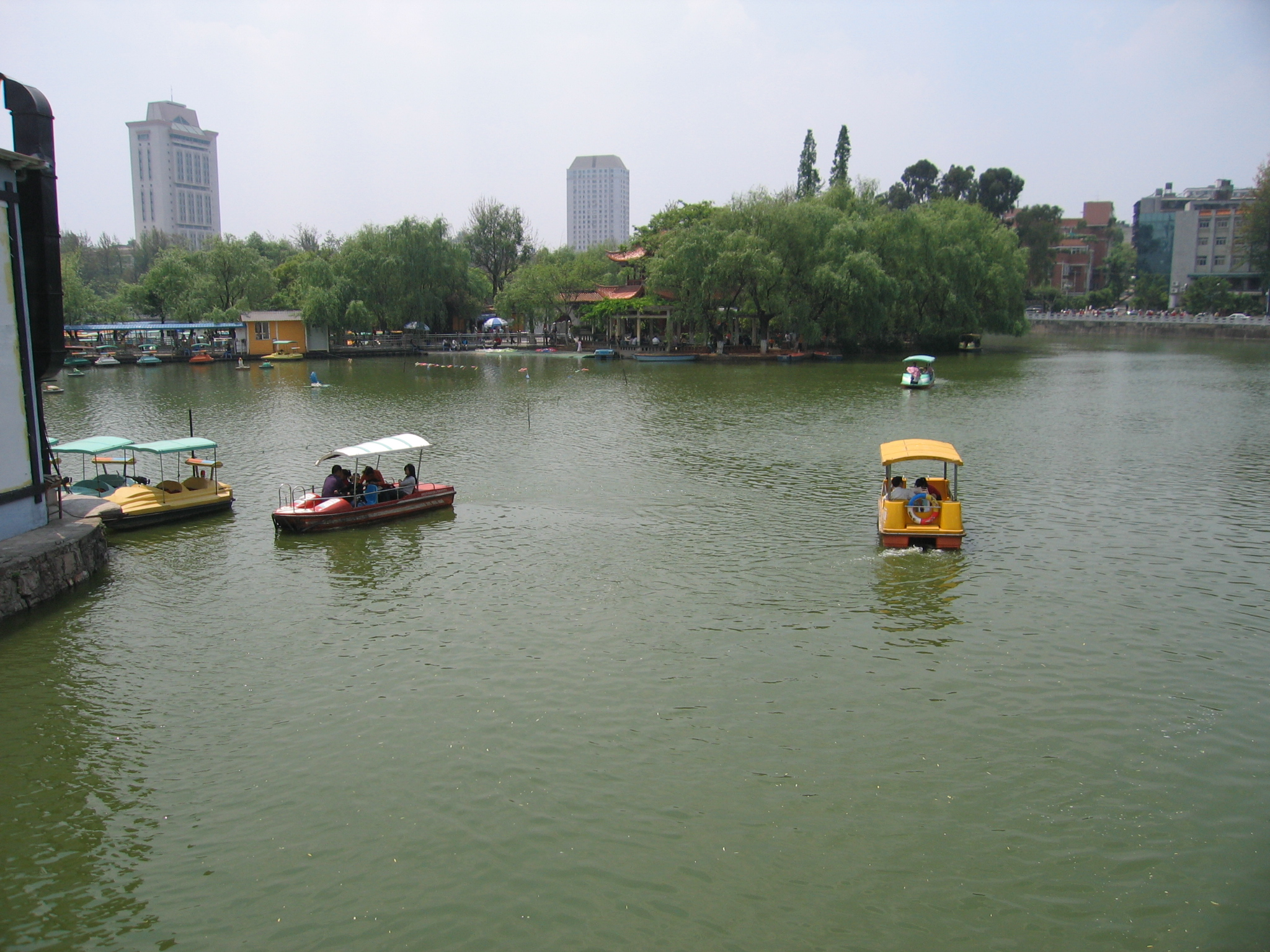 Pleasure boats at Green Lake Park (Cuihu Park) in Kunming, Yunnan Province.